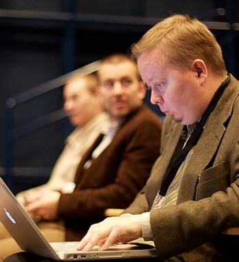 Cropped Ville Oksanen hacking at Openmind 2006 in Tampere Hall, Finland.